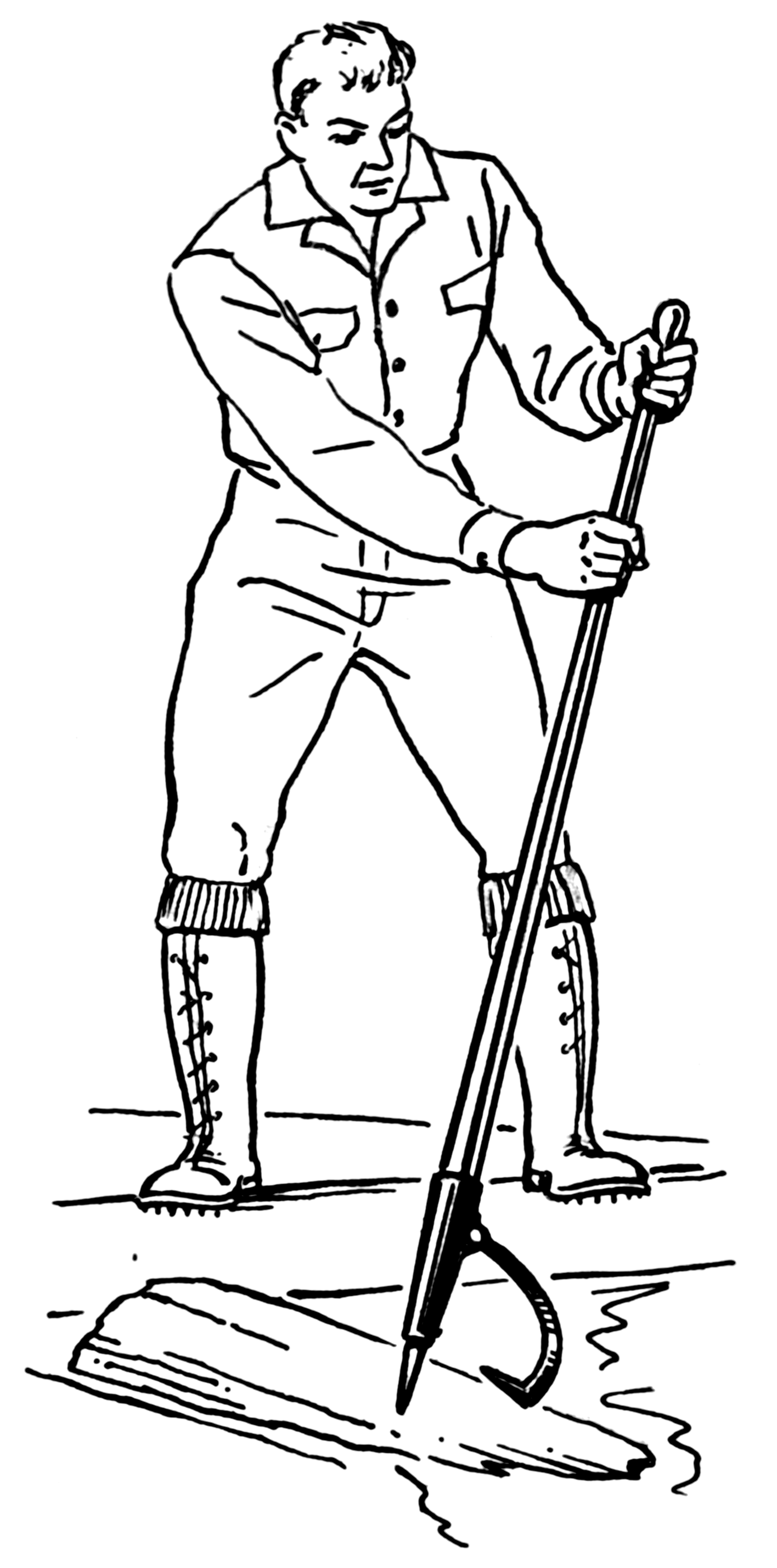 Line art drawing of peavey.